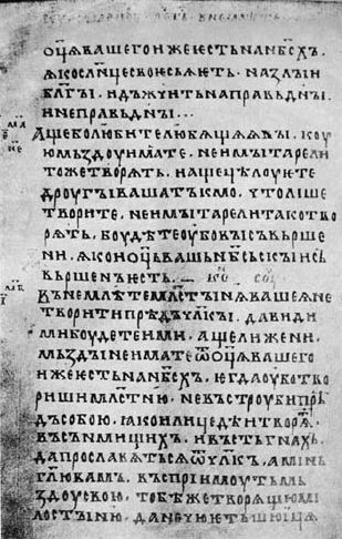 Galitskoe Gospel